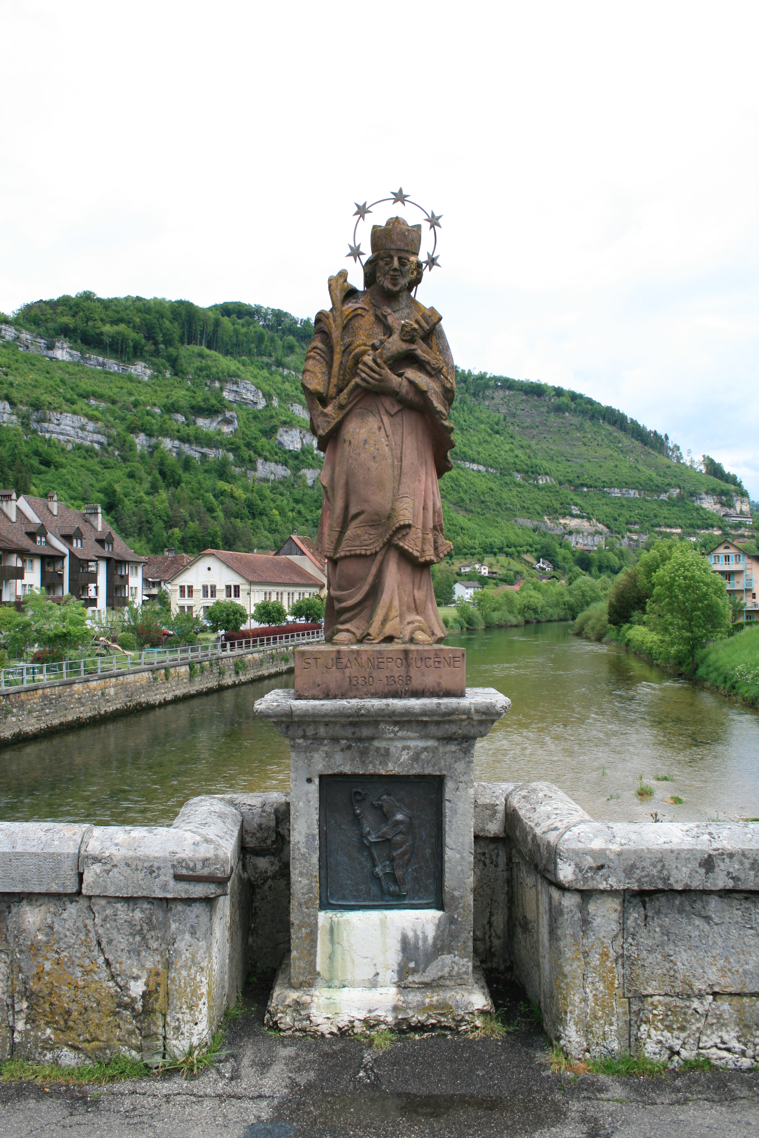 St. Nepomuk at the bridge over the river Doubs, Saint-Ursanne, Switzerland